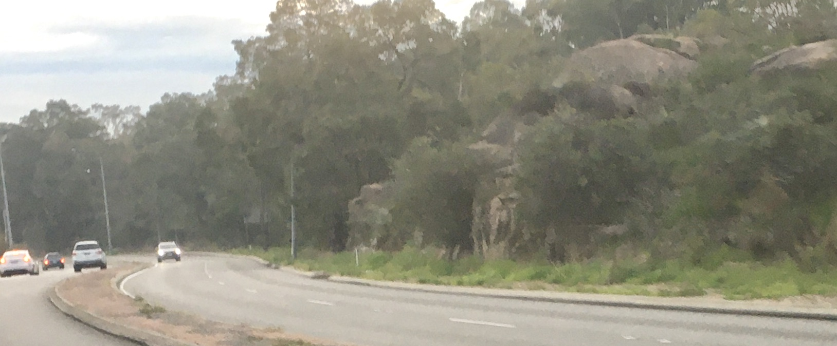 Location of Chippers leap on Great Eastern Highway (Rock at right hand side)